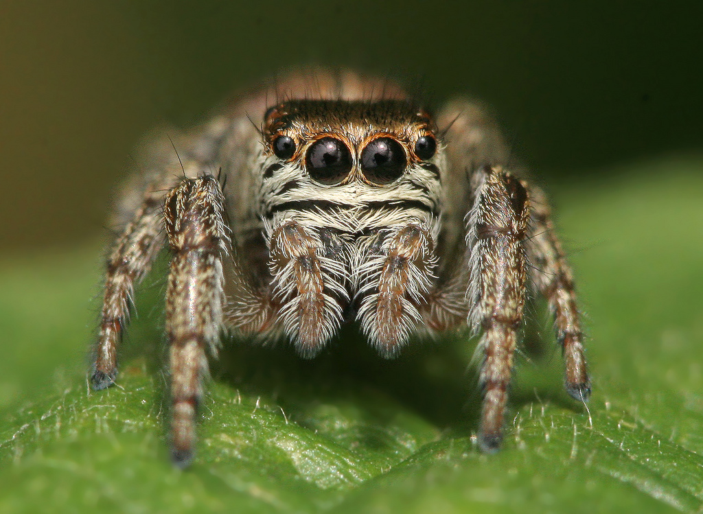 Jumping spider (Evarcha arcuata)